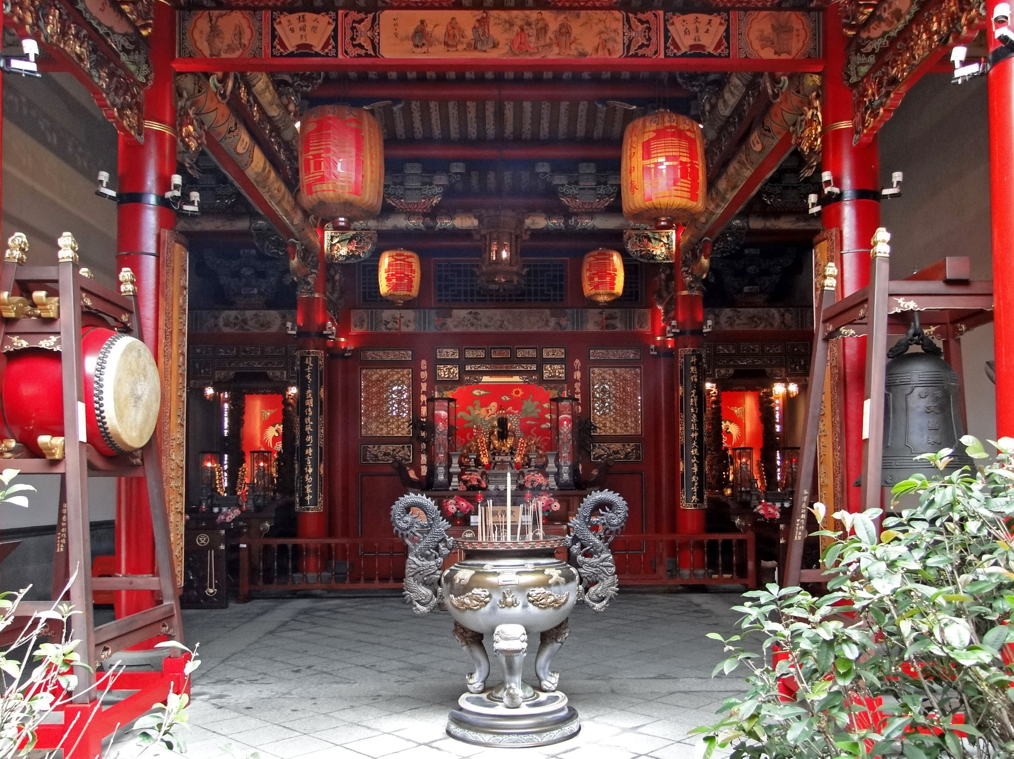 Wenchang Temple in National Center for Traditional Arts, Wujie Township, Yilan County, Taiwan